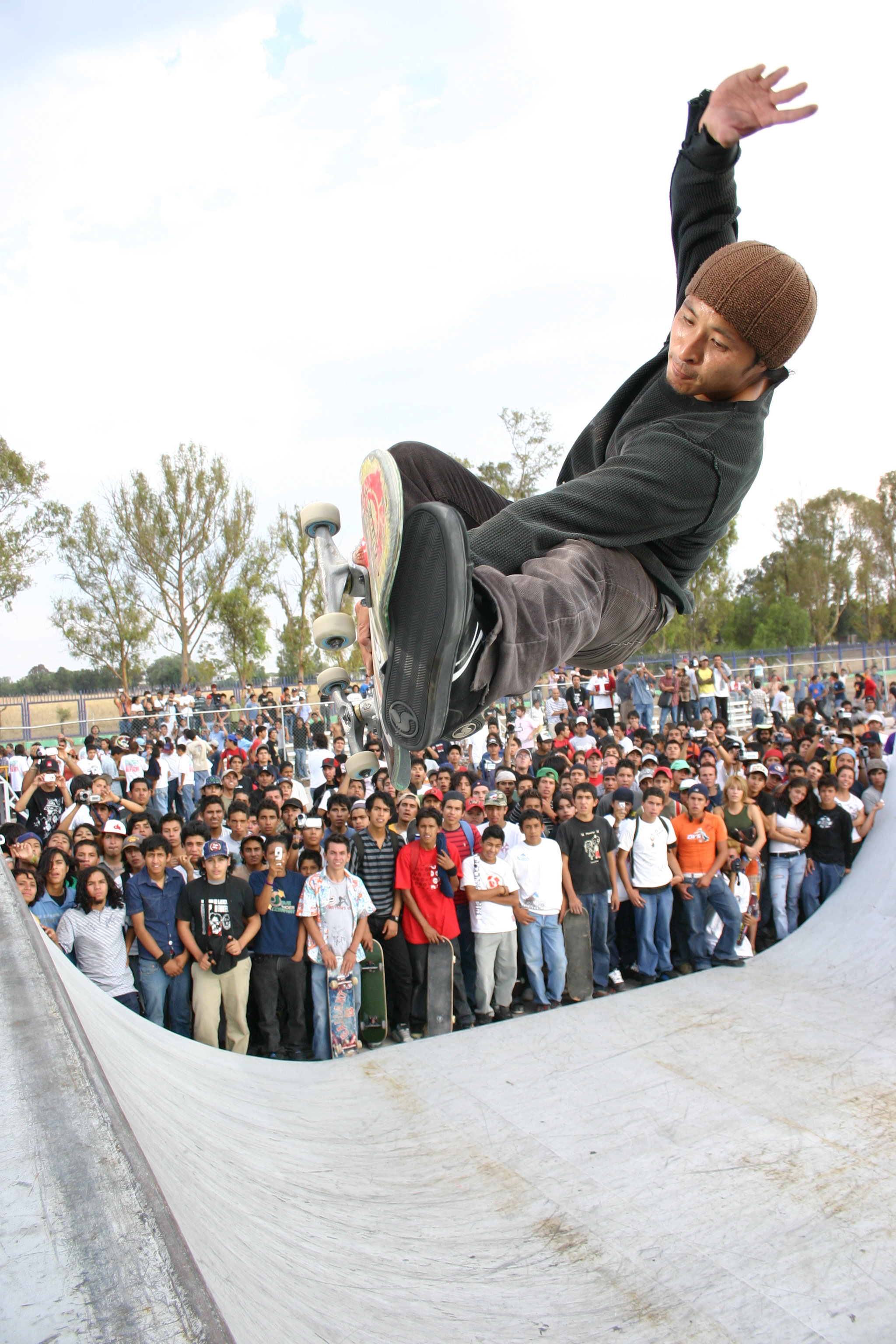 Skateboarder Daewon Song in Guanajuanto, Mexico.